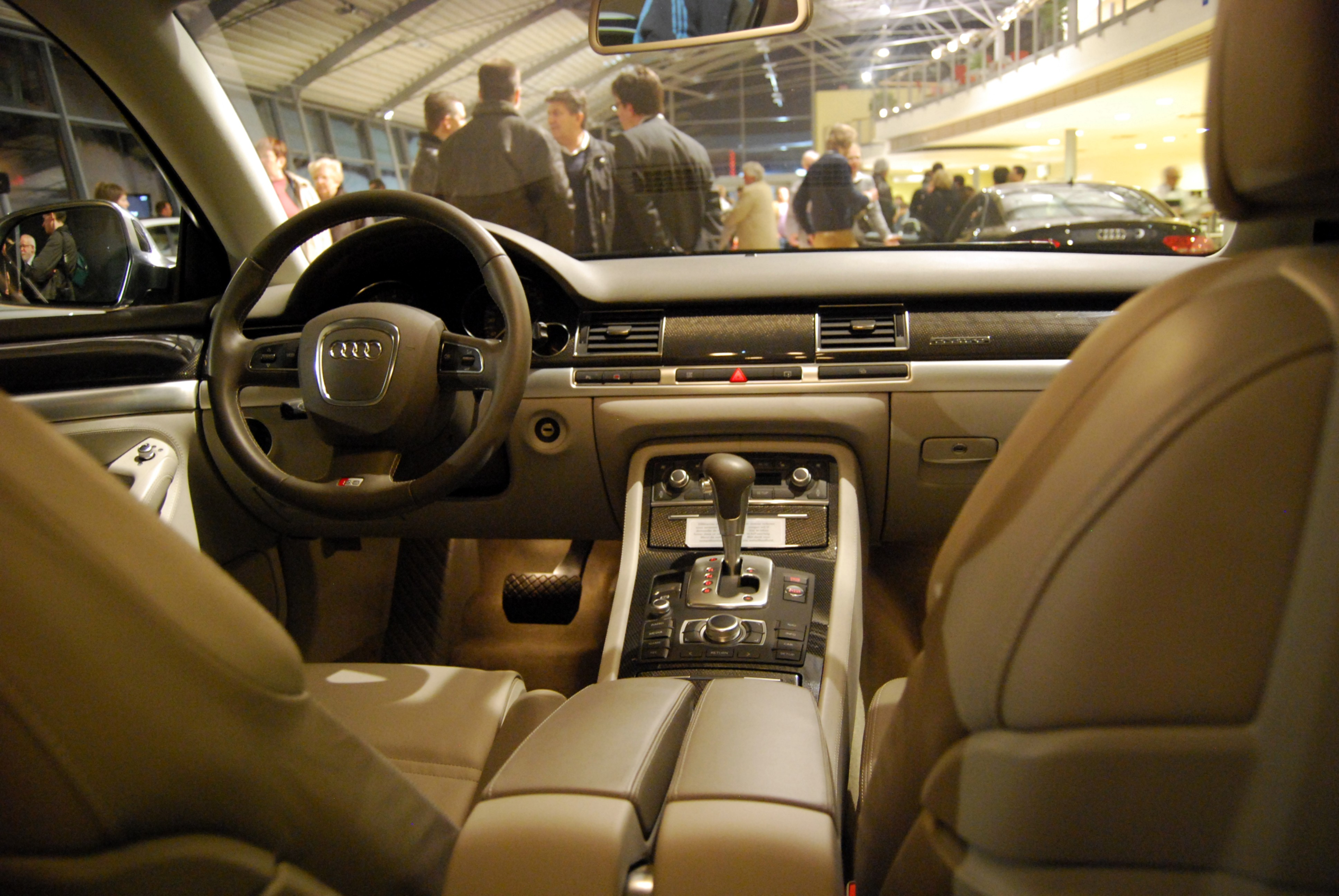 Cockpit of a 2009 Audi S8 (D3) sedan. VERY luxurious!.Audi S8 - cockpit